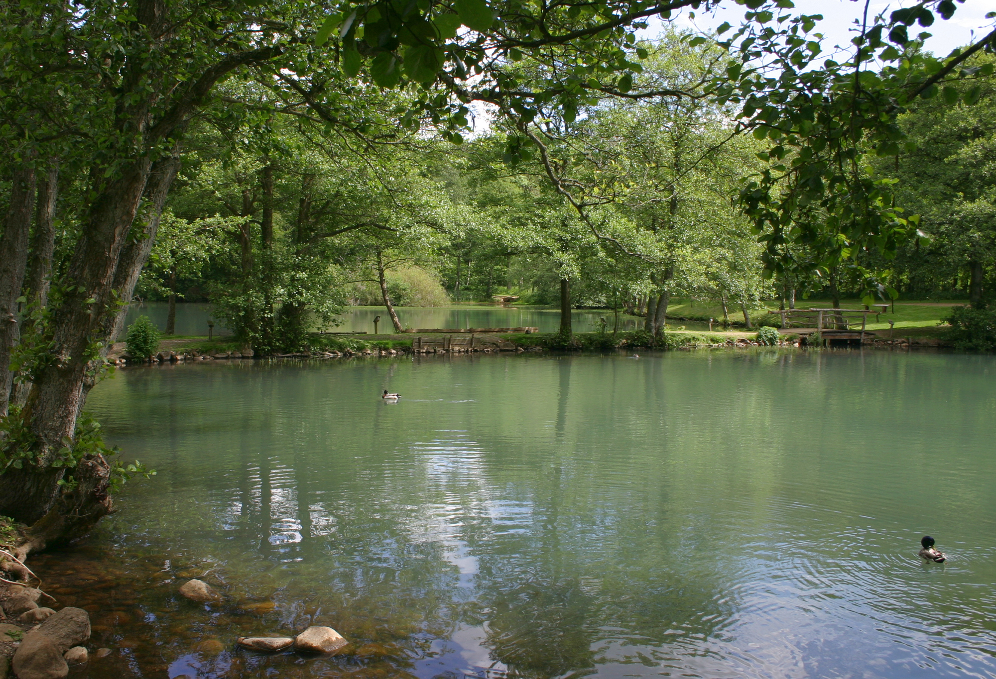 The lake beside Pøt Mølle, a watermill in Denmark near the city Hammel, built around 1300-1400.